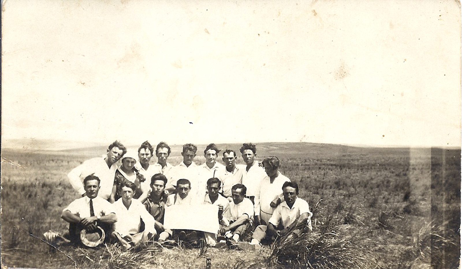 Tsofit founders, Settlements in Israel